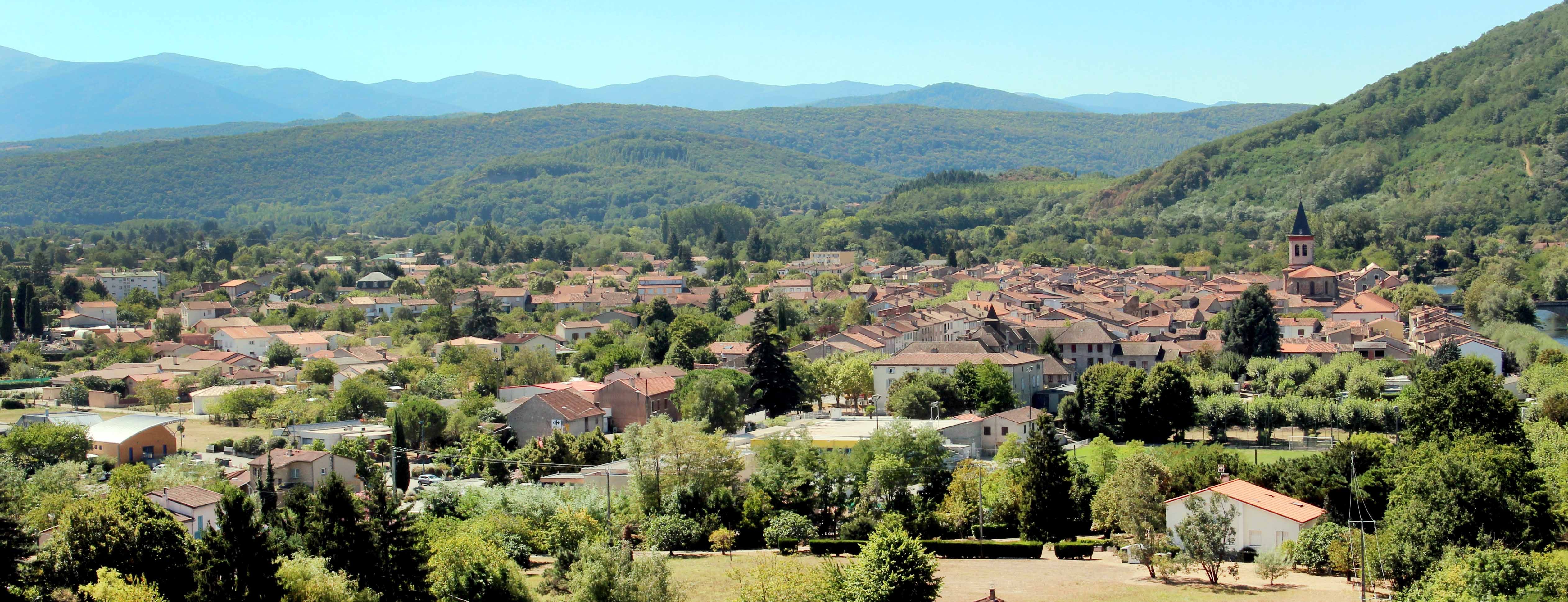 Panorama de Varilhes